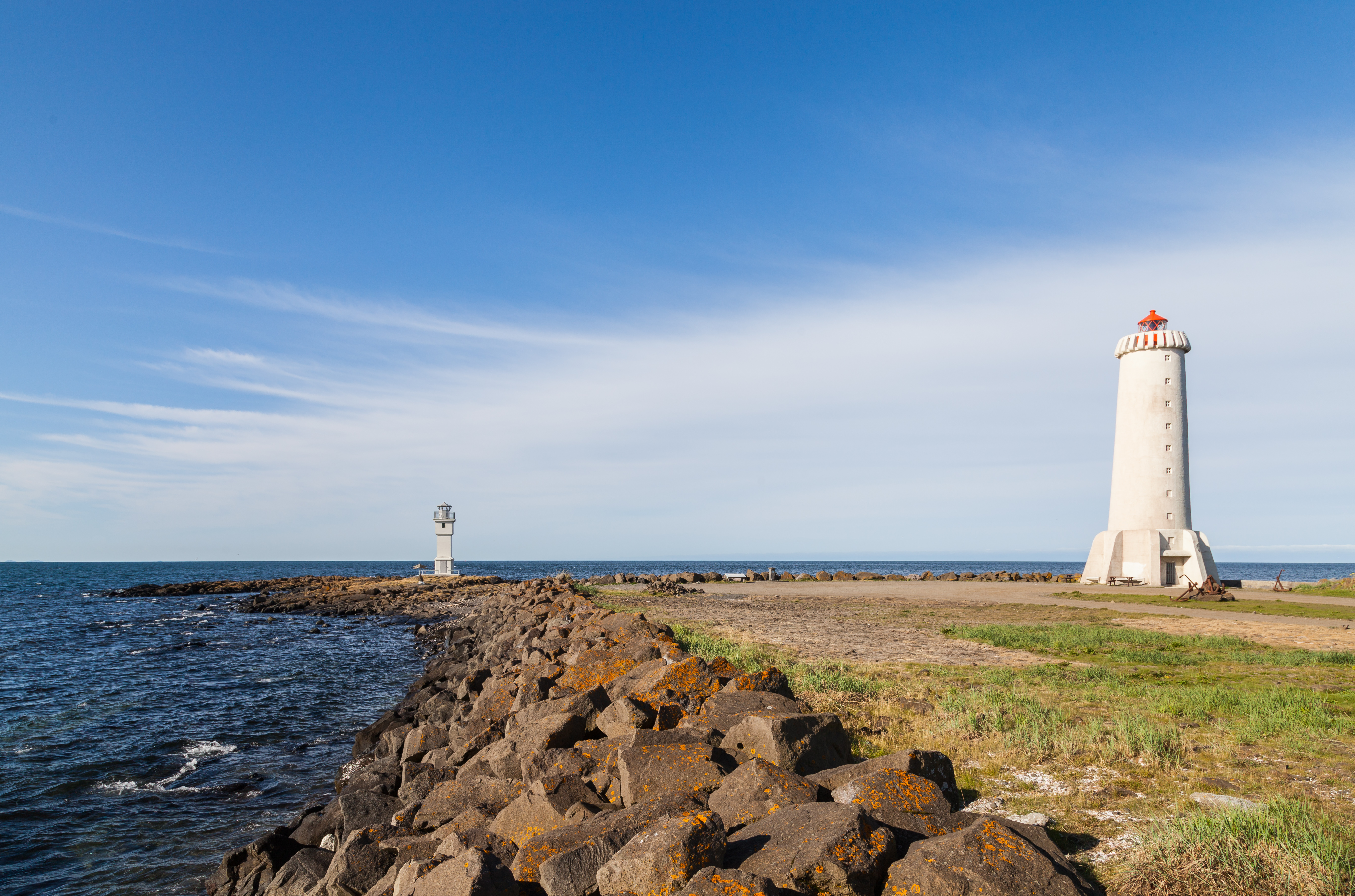 Akranes lighthouses, Vesturland, Iceland